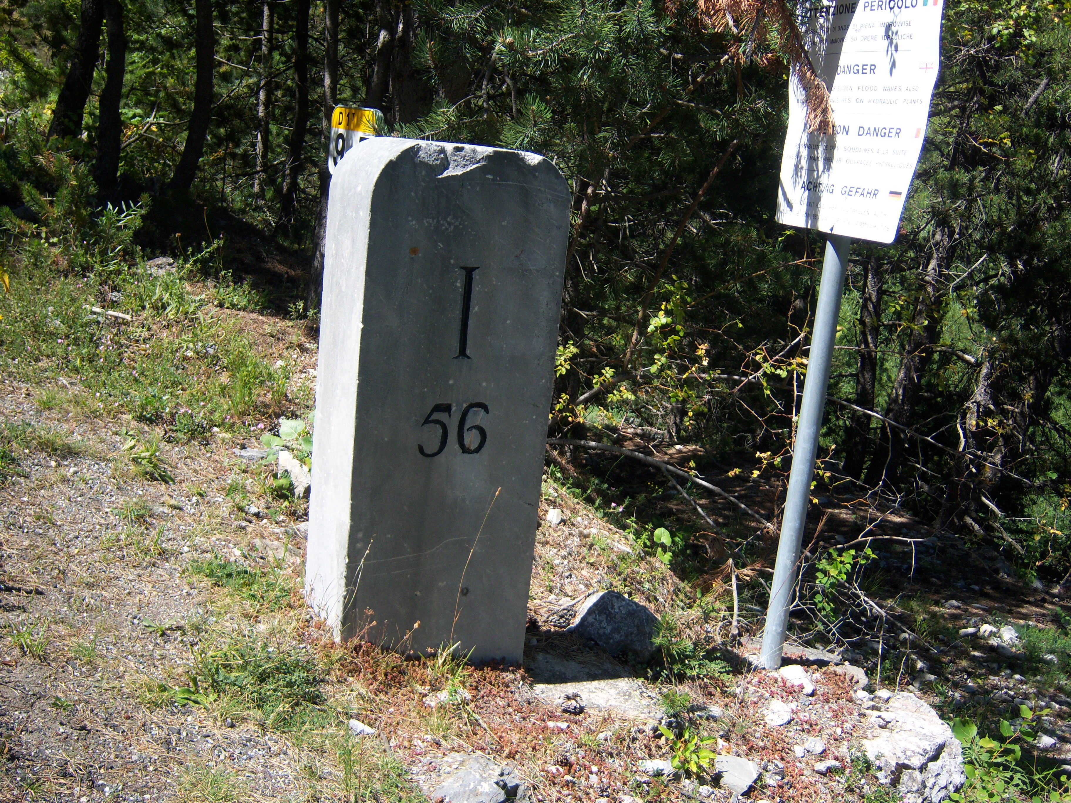 Road sign of the new border at Valle Stretta